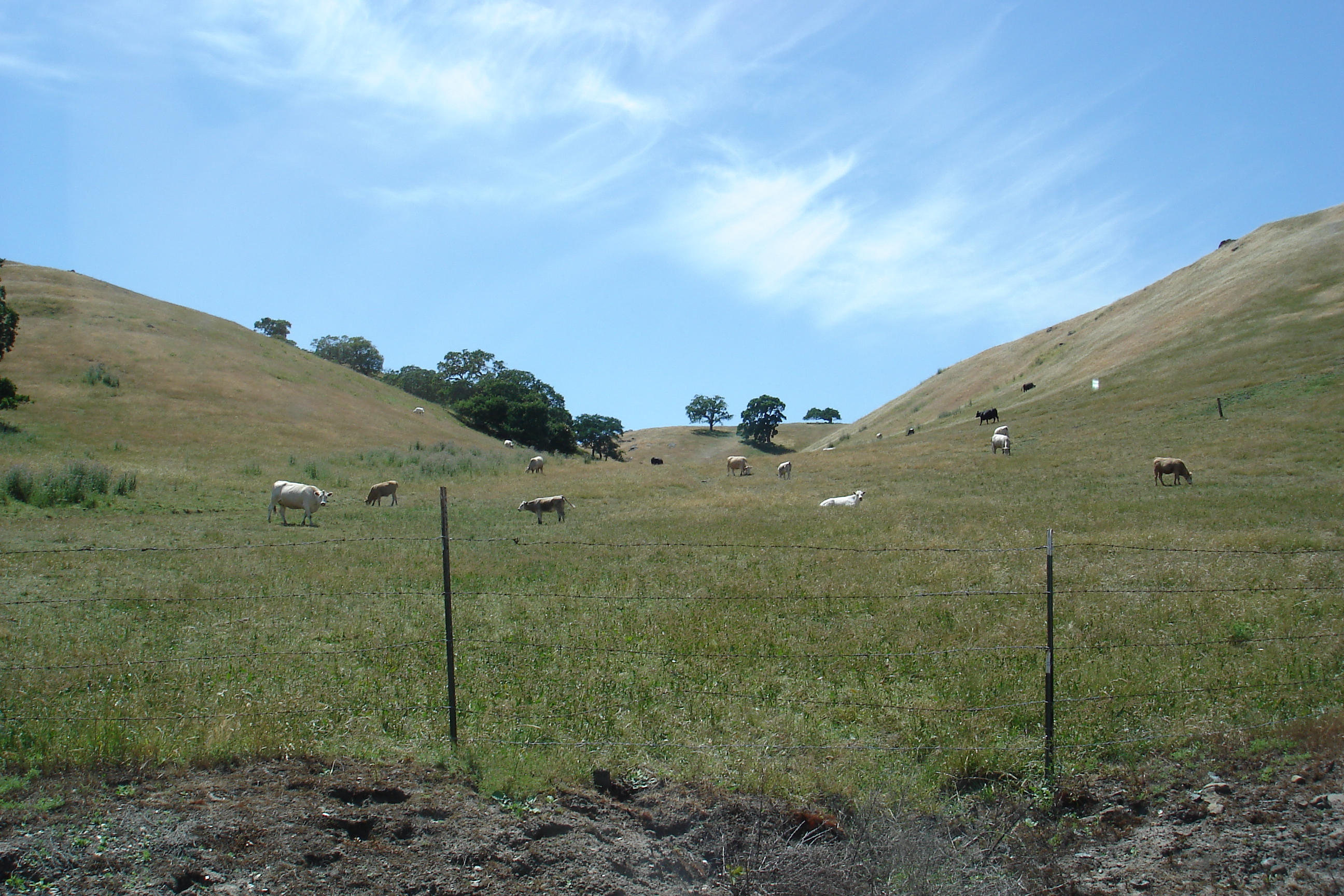 Livestock along Calervas Road adjacent to Calervas Reservoir on May 28, 2006